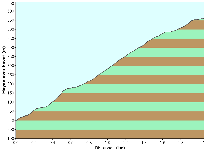 Height profile climbing the Trælneshatten mountain in Brønnøy, Norway.